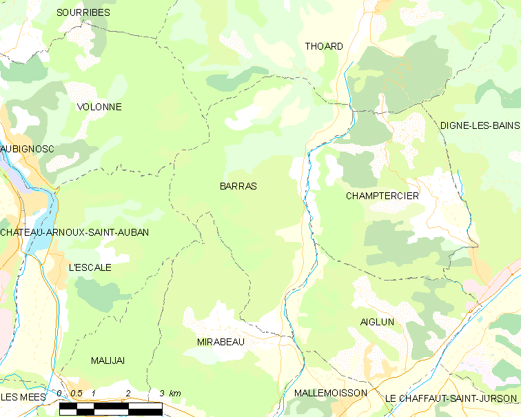 Map commune FR insee code 04021.png Légende